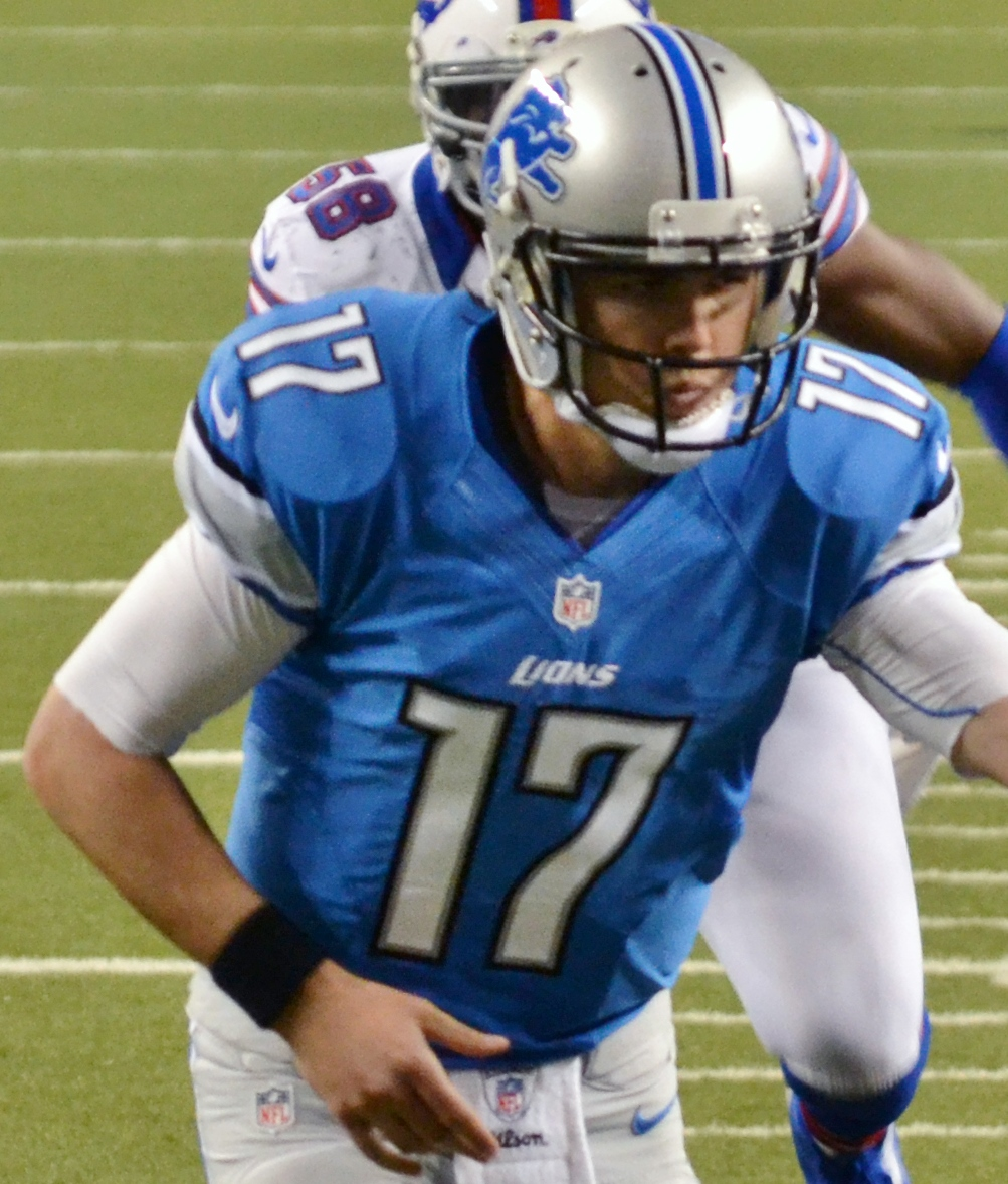 Detroit Lions backup quarterback Kellen Moore in a 2012 preseason game.